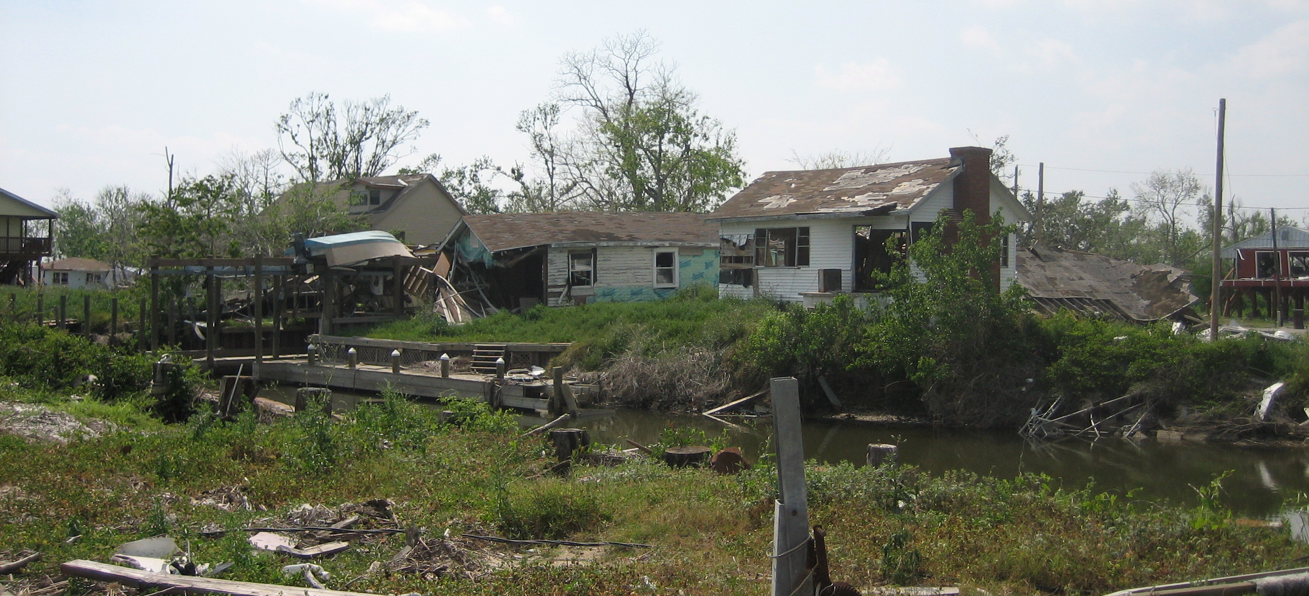 St. Bernard Parish, Louisiana. Aftermath of the Hurricane Katrina storm surge flooding along Bayou Ysclosky.